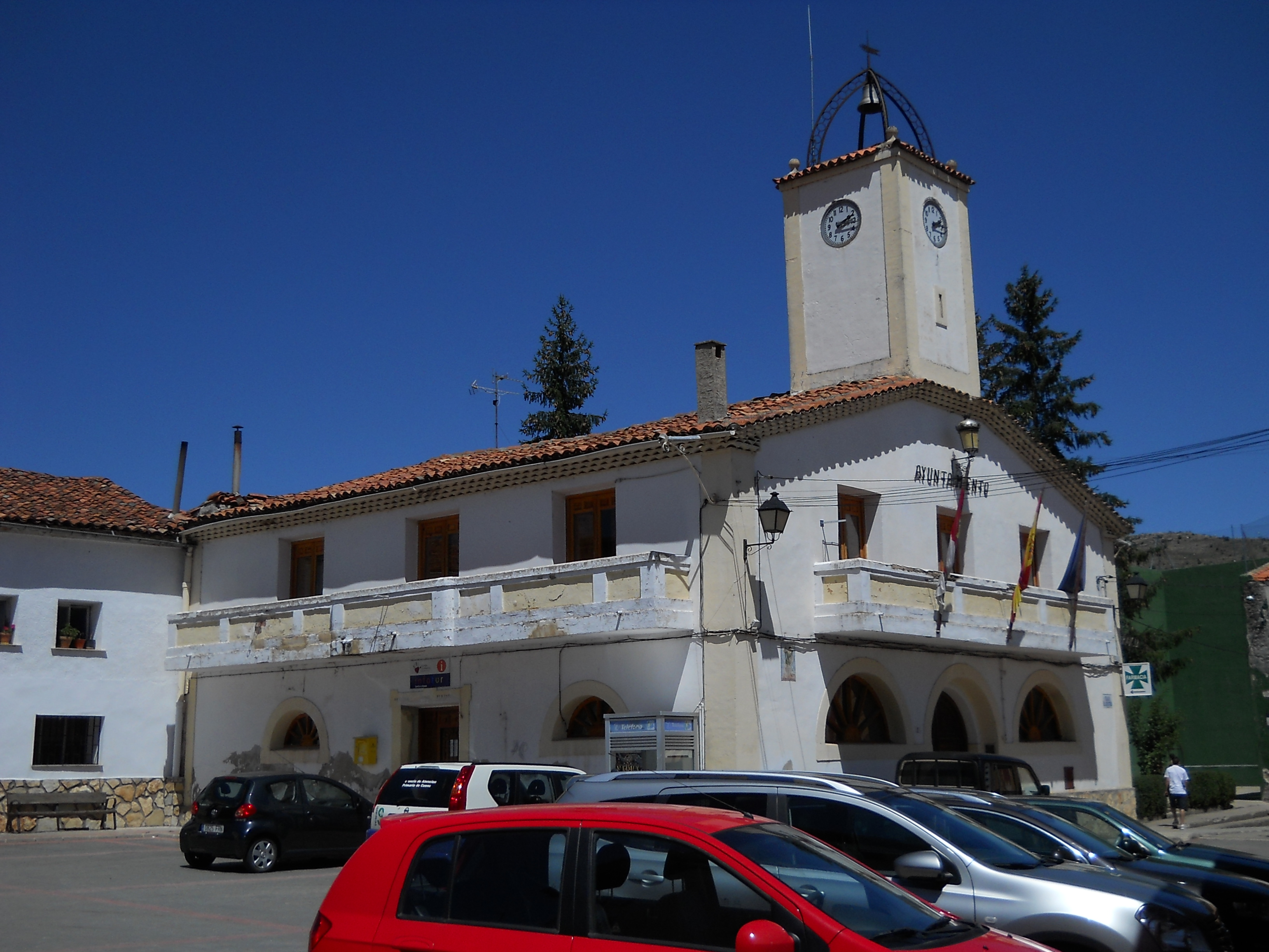 Town hall, Tragacete, Cuenca, Spain